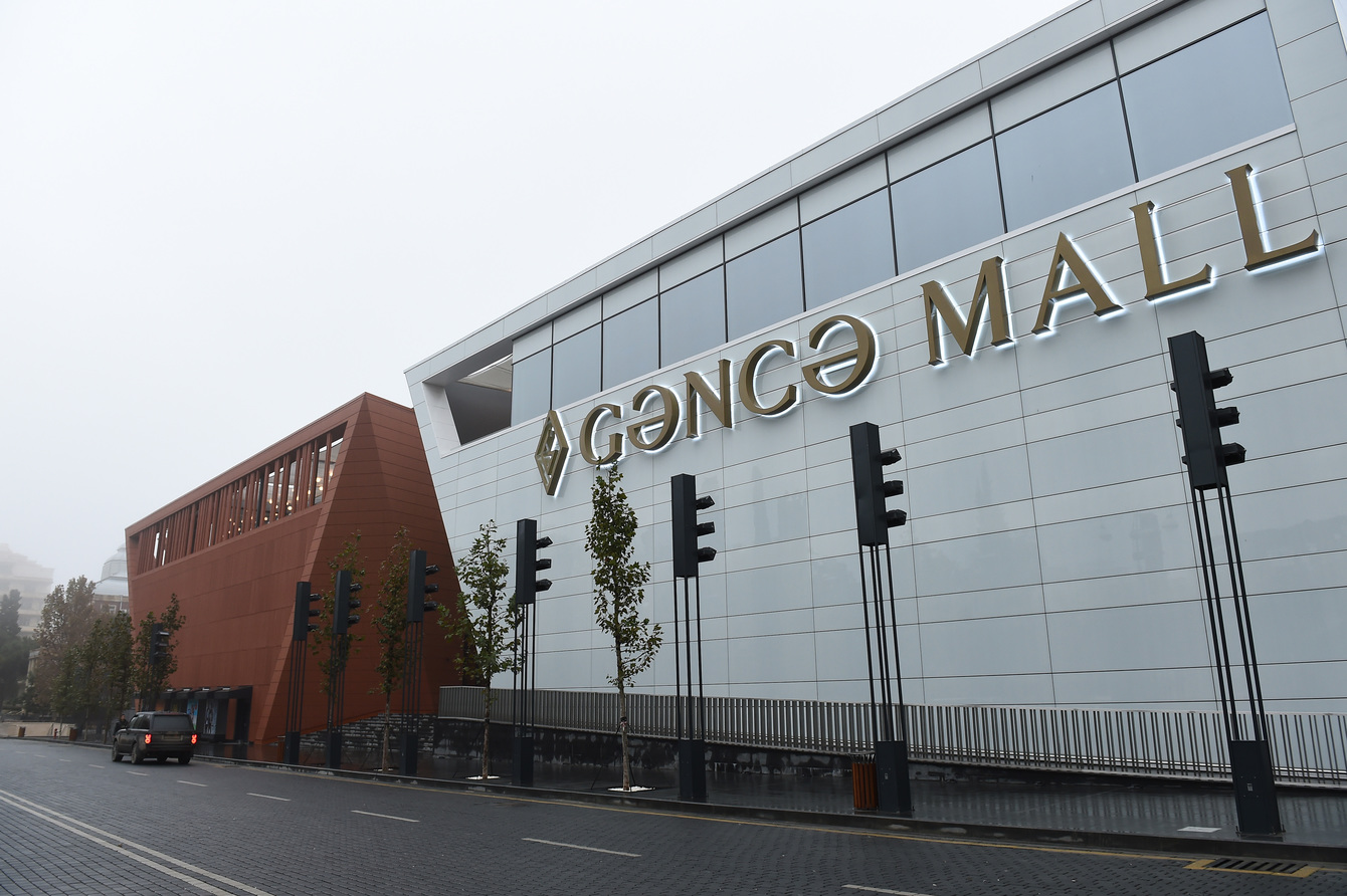 Shopping center in Ganja, Azerbaijan